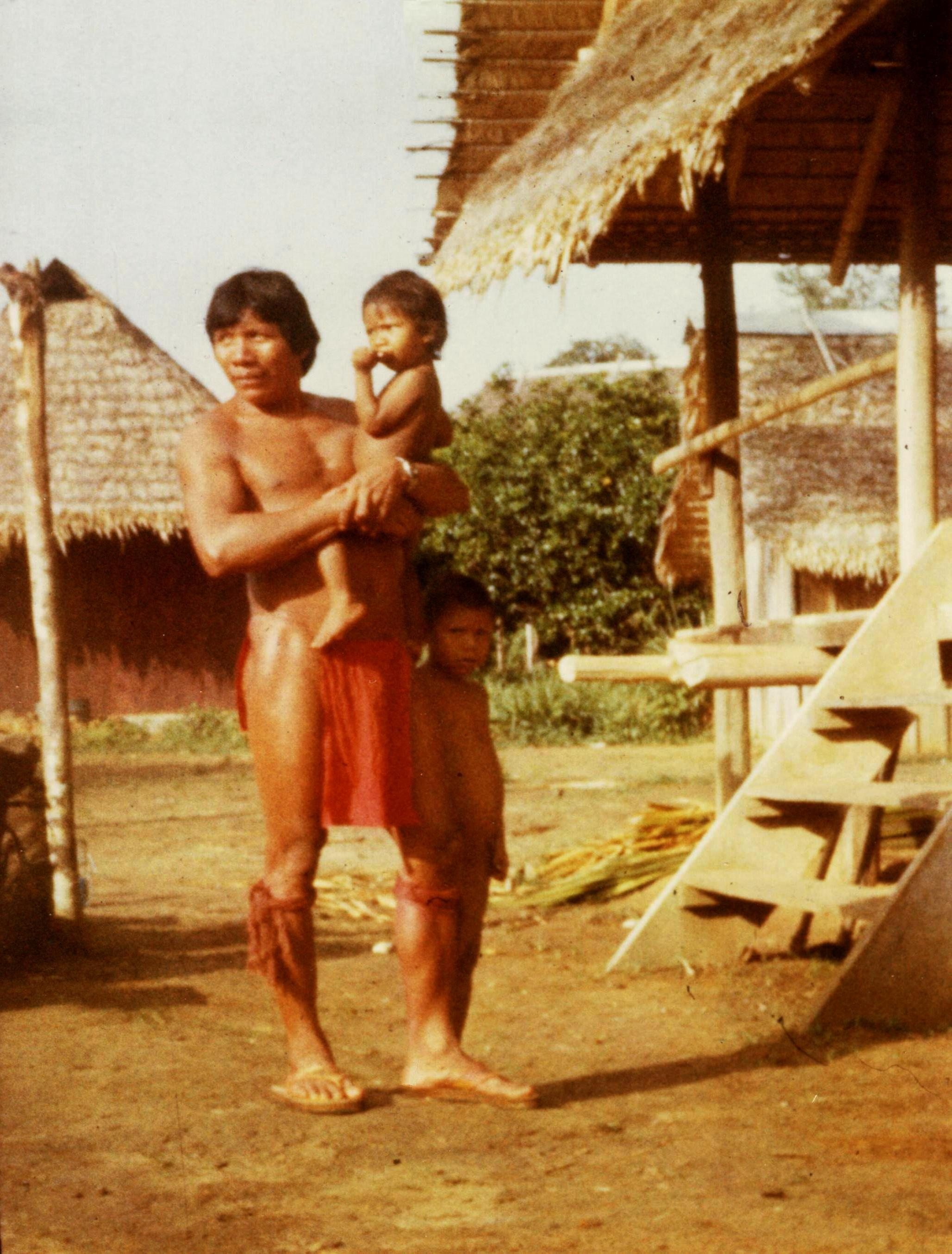 Photo taken in 1979. Daily life in the Wayana village of Antecume Pata in French Guiana..